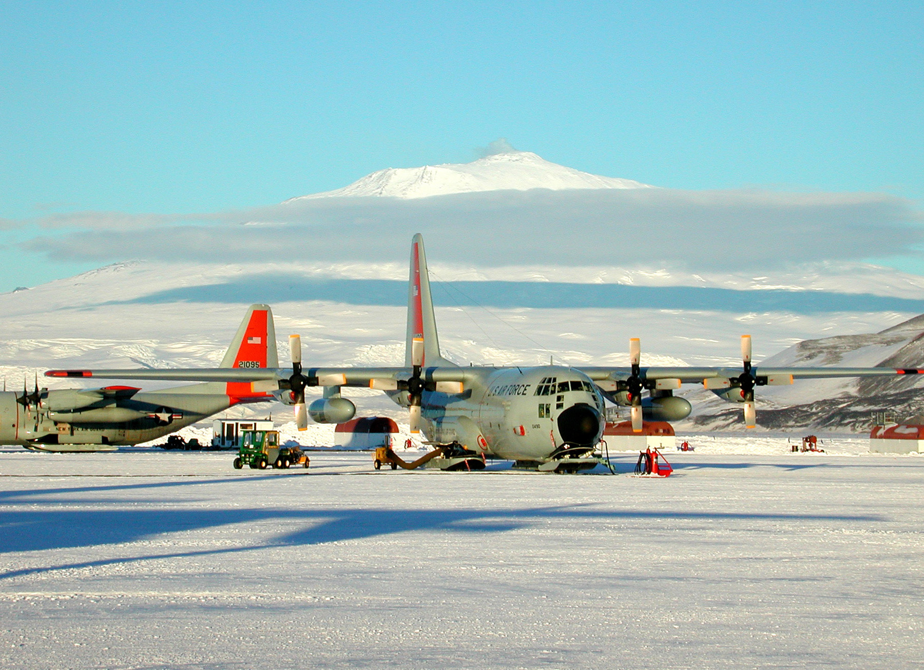 Hercules LC-130 at the sea ice runway on the Ross Ice shelf near McMurdo Station with Mount Erebus in the background, Ross Island, Antarctica